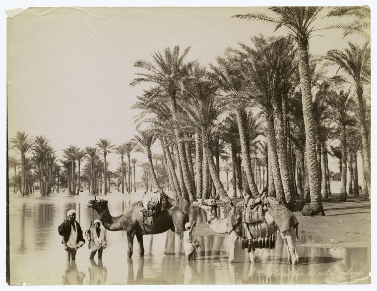 Digital ID: 88440. Zangaki -- Photographer. 1860s-1920s Source: [Photographs and prints of Egypt and Syria.] (more info) Repository: The New York Public Library. Photography Collection, Miriam and Ira D. Wallach Division of Art, Prints and Photographs. See more information about this image and others at NYPL Digital Gallery. Persistent URL: Rights Info: No known copyright restrictions; may be subject to third party rights (for more information, click here)